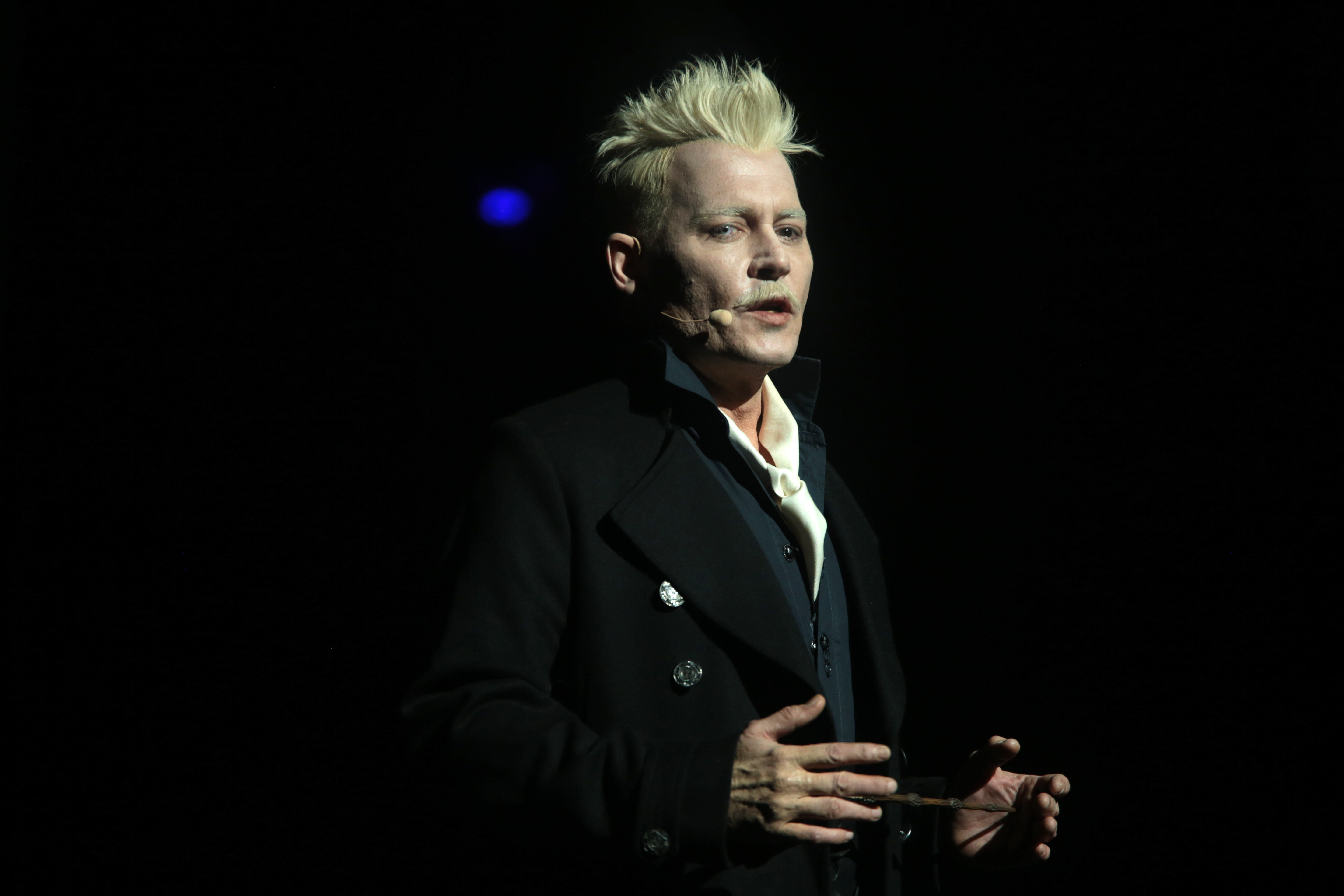 Johnny Depp speaking at the 2018 San Diego Comic Con International, for "Fantastic Beasts: The Crimes of Grindelwald", at the San Diego Convention Center in San Diego, California.